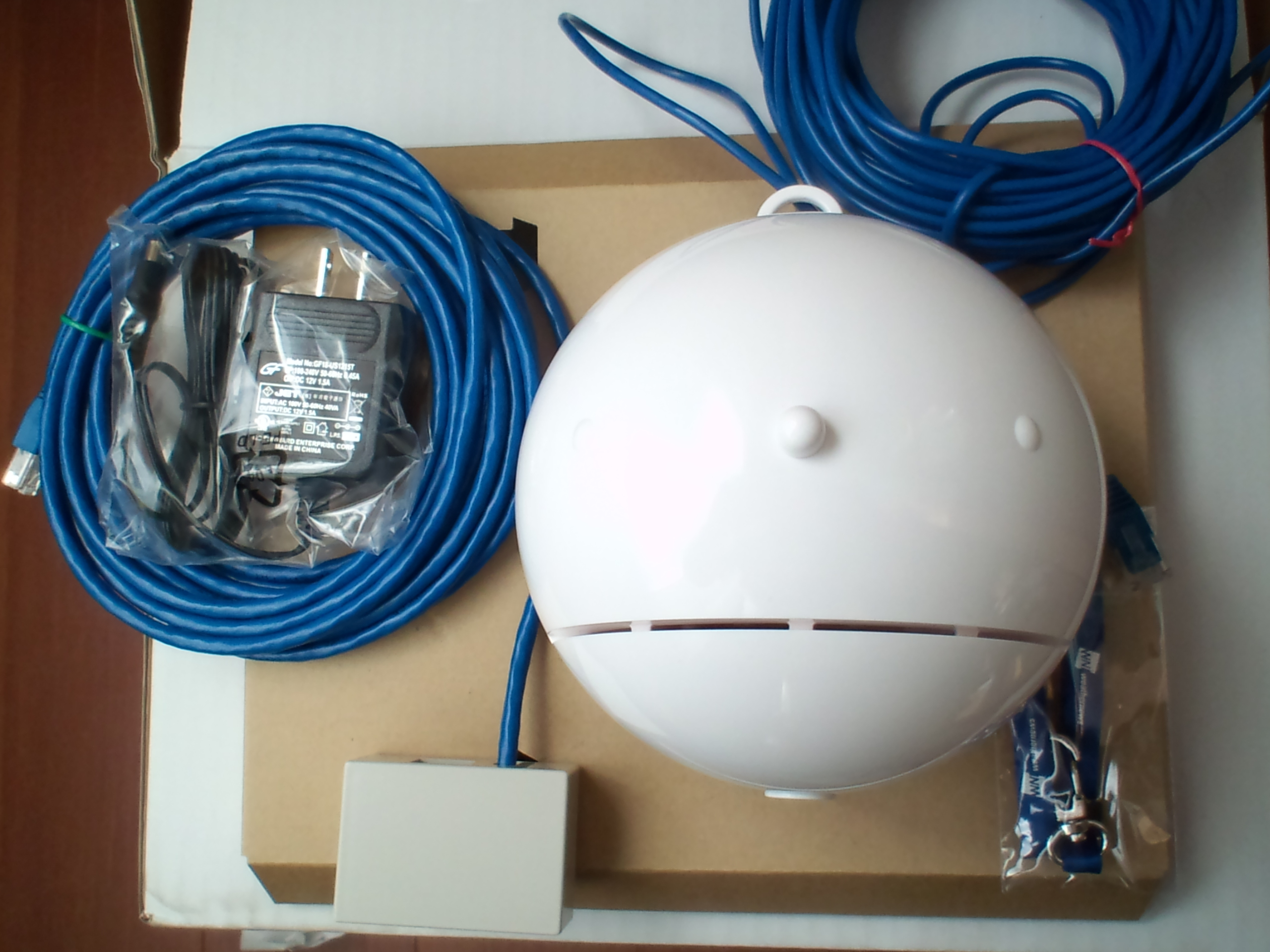 Pollen observation machine for WEATHERNEWS offer "Pollen robot No.6"(2011 model) (The one which has reached photographer's home.) The body of spherical, LAN cable (15m and 5m), AC adapter, Connection box of the lower left square.